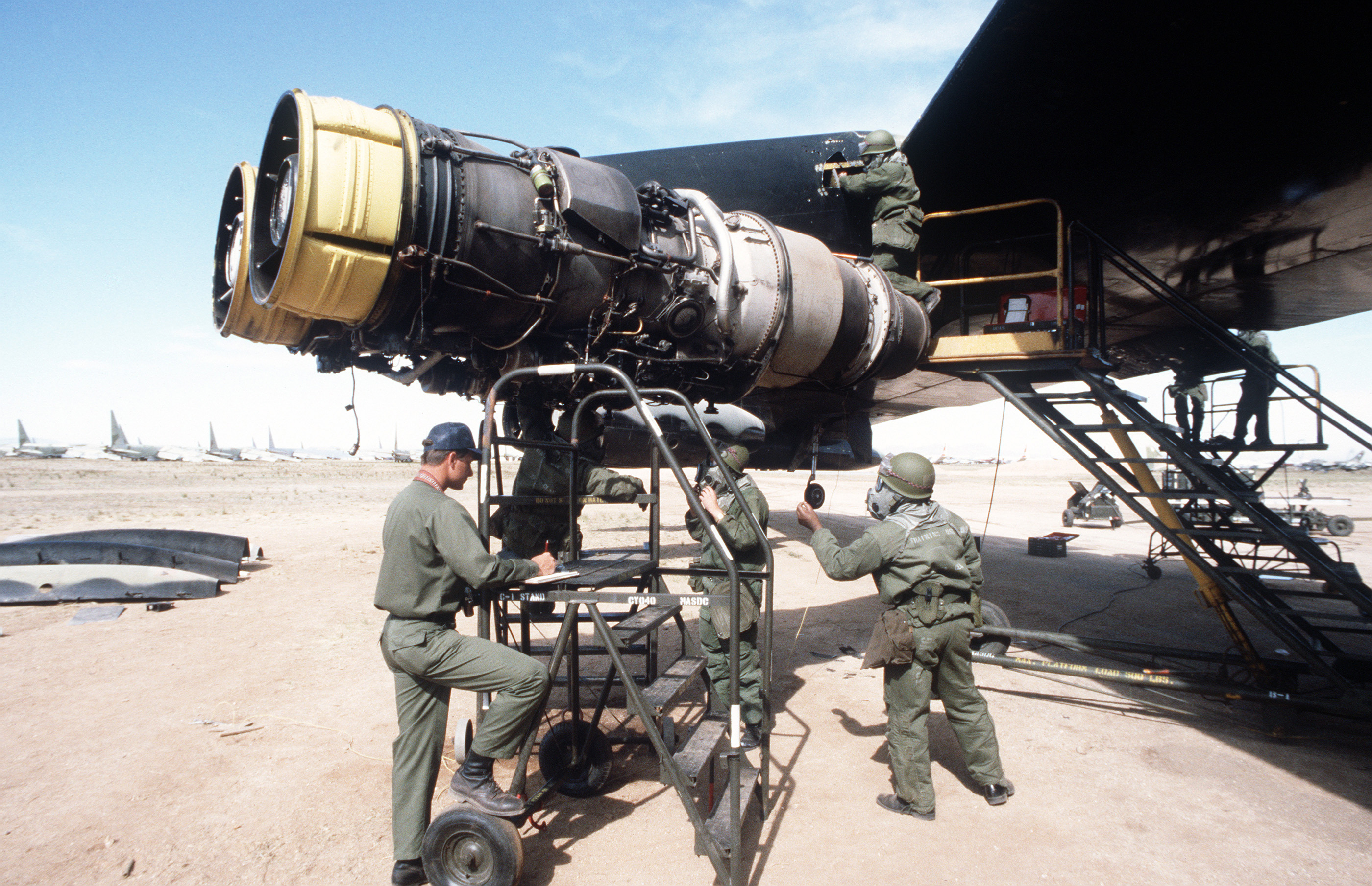 A U.S. Air Force inspector observes members of a combat logistics support squadron as they replace a damaged Pratt & Whitney J57 engine of a Boeing B-52D Stratofortress bomber during exercise "Night Train/Global Shield '84" at Davis-Monthan Air Force Base, Arizona (USA), on 2 April 1984. The crew is wearing nuclear, biological and chemical (NBC) gear.